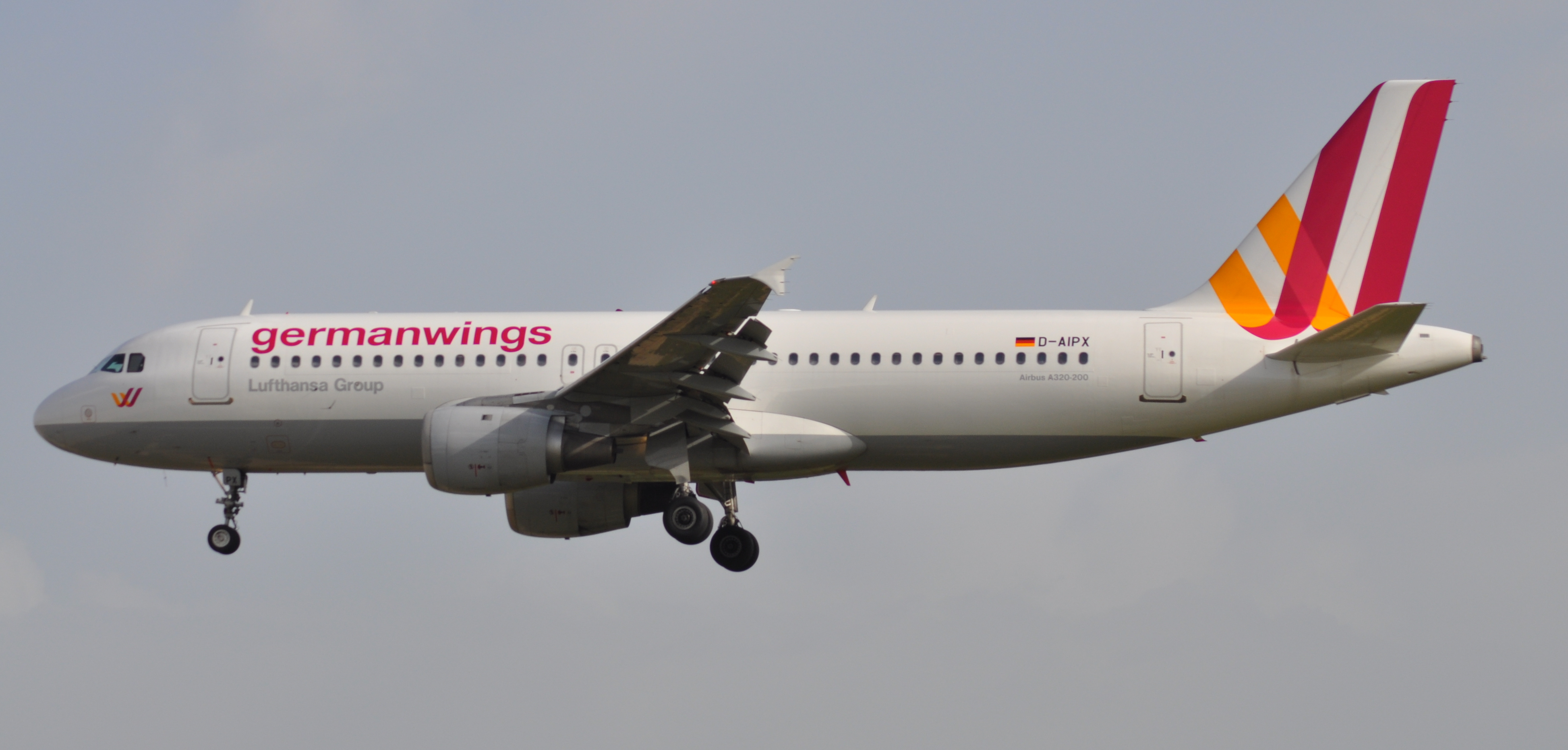 Airbus A320 (D-AIPX) of Germanwings on final approach at Barcelona Airport. This aircraft crashed on 24 March 2015 in the French Alps as Germanwings Flight 9525